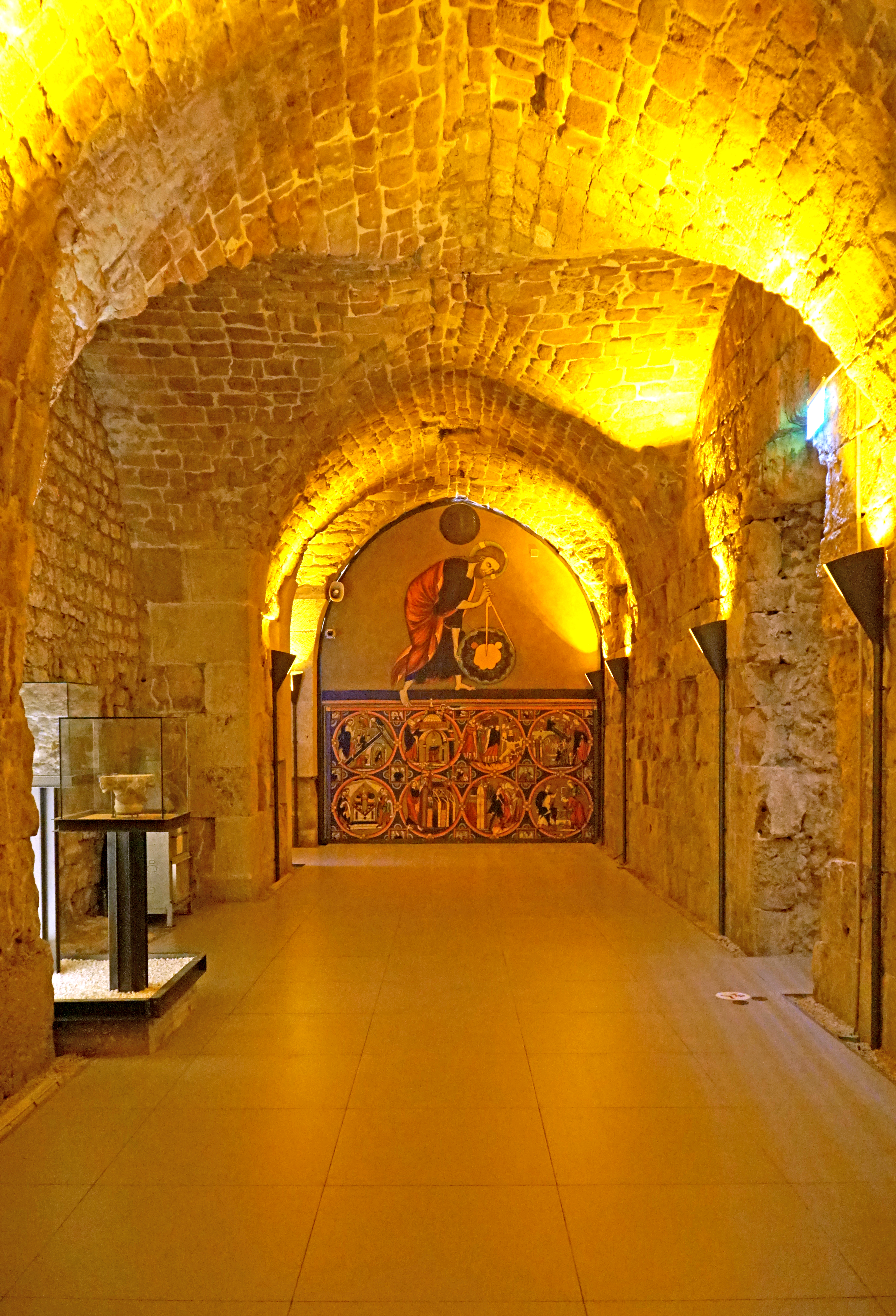 Hospitaller church of St. John was located at the crossroads south of the compound.